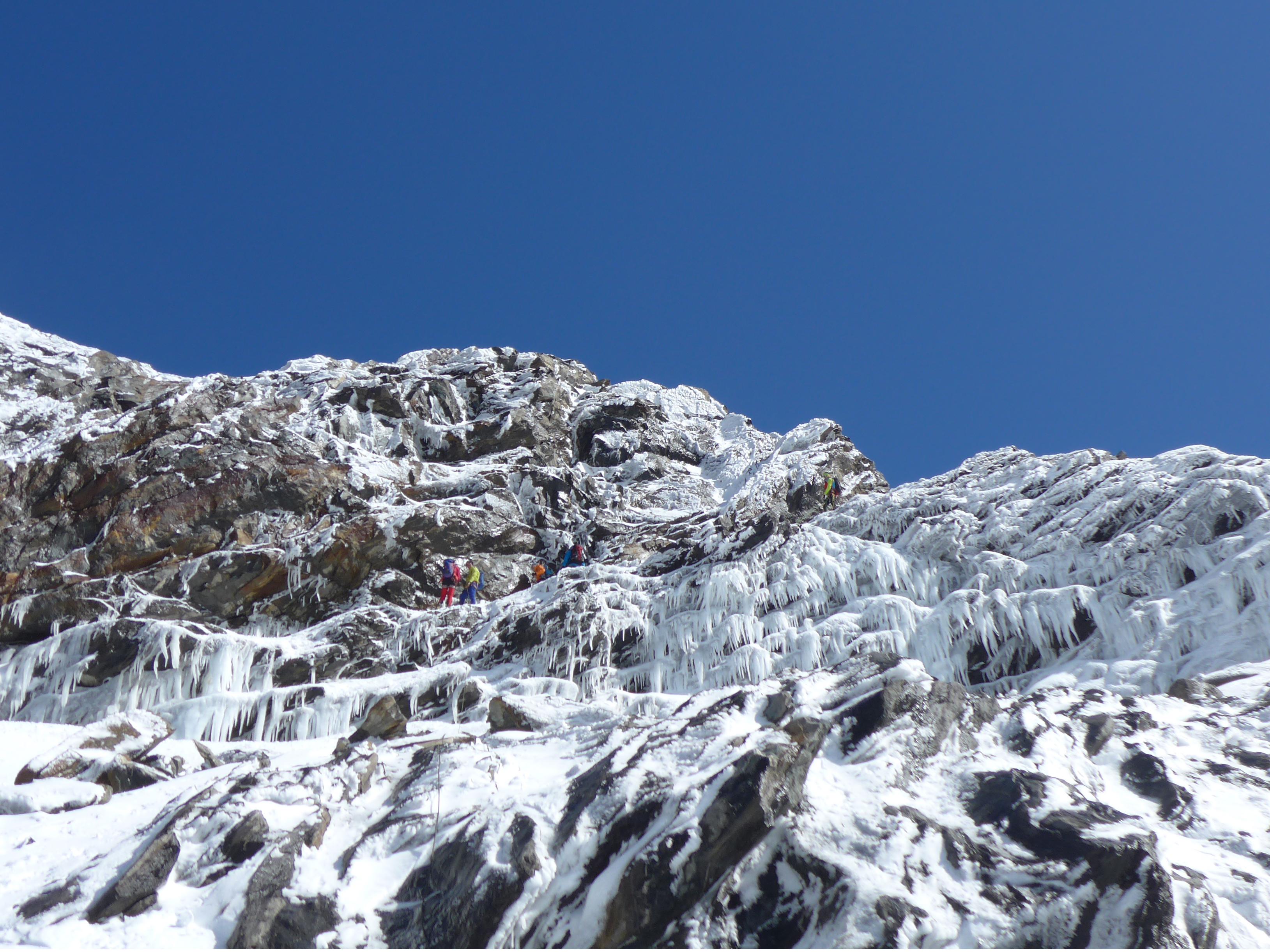 Icy rocks on Lahner Kees route of Dreiherrenspitze